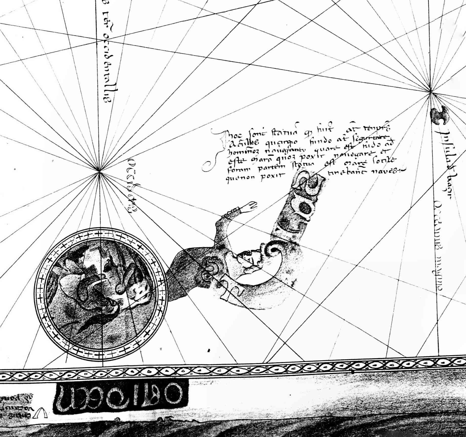 The "strange Figure" and the controversial Hercules Antilia legend. (Jomard)